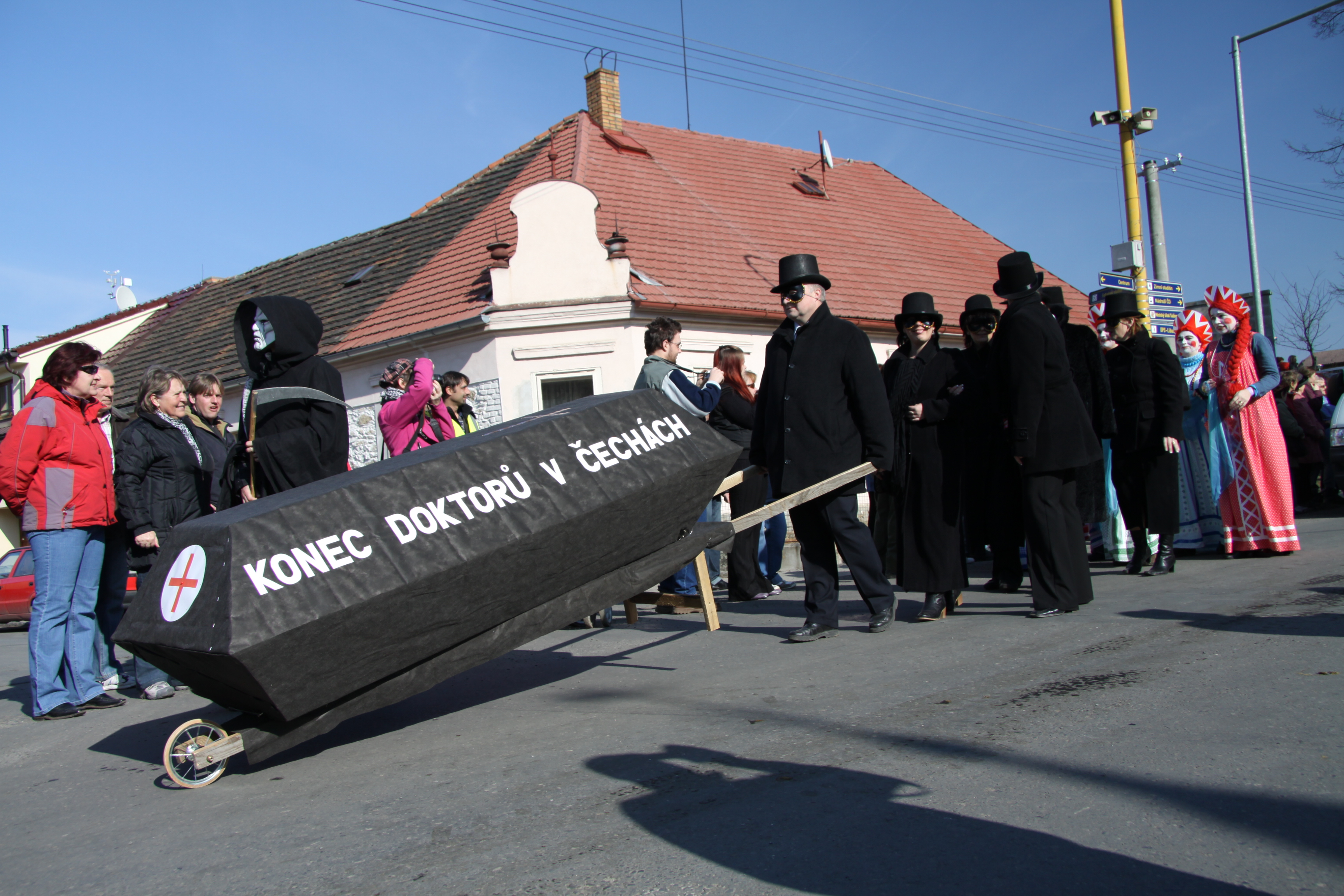 Mardi Gras in 2011 in Milevsko town, Písek District, Czech Republic - Google Maps - Google Earth